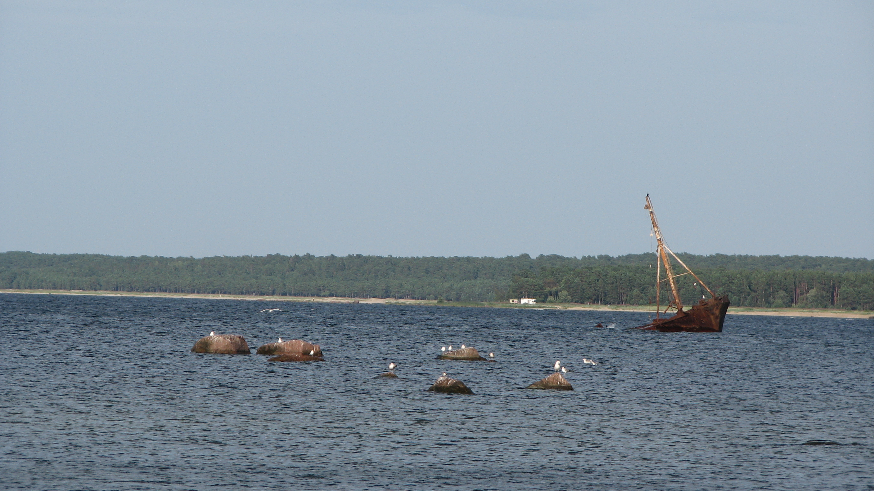 Lohusalu beach and ship wreck (liner "Iosif Stalin") in August 2012.